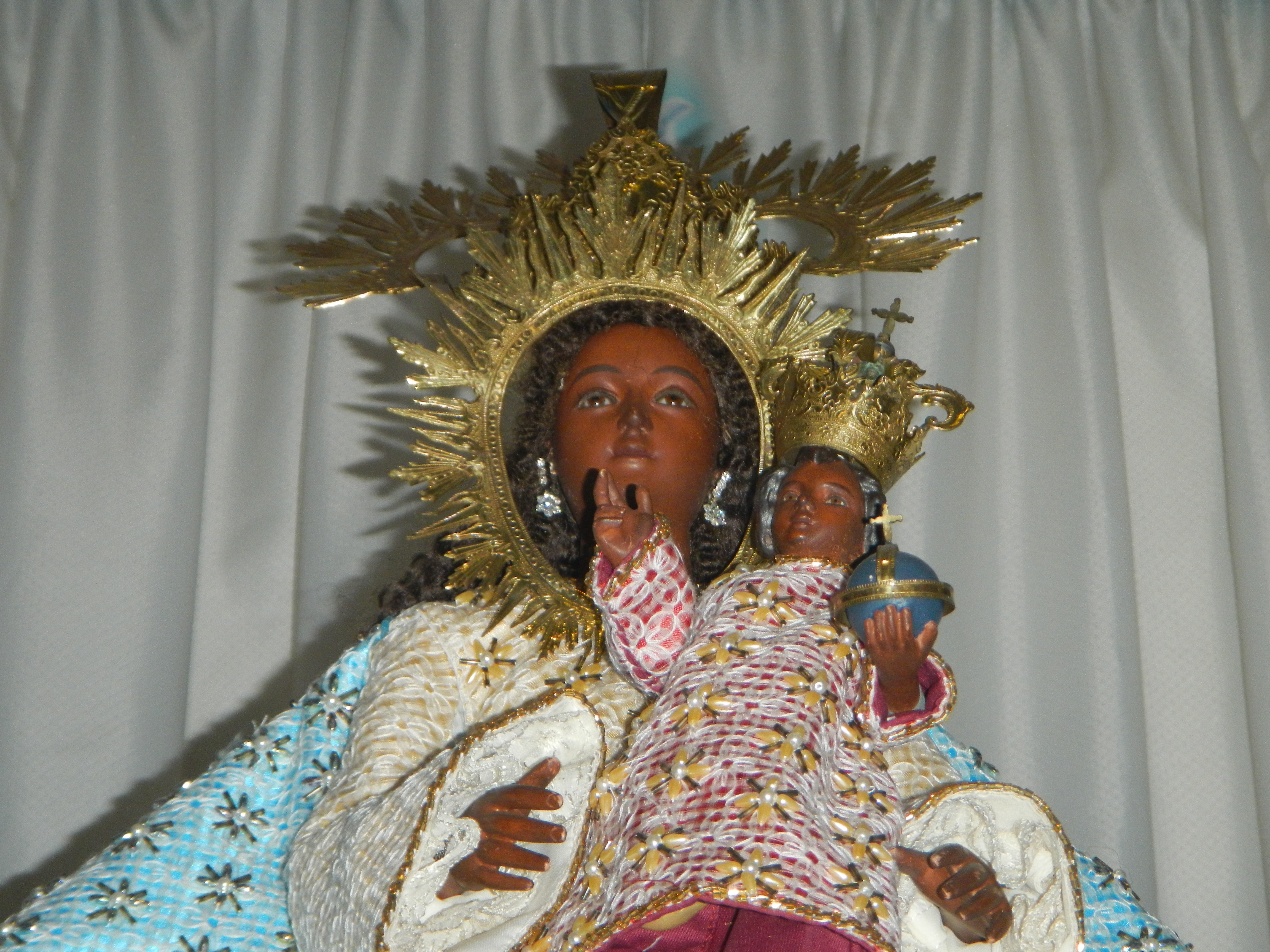 Parañaque Cathedral[1]St. Andrew's Cathedral, officially known as The Cathedral Parish of St. Andrew, is considered one of the oldest churches in the Philippines. It was established in 1580 by Spanish Augustinian friars.The church is the seat of the Roman Catholic Diocese of Parañaque[2], the local church that comprises Parañaque City, Muntinlupa City, and Las Piñas City. ([3]Roman Catholic Archdiocese of Manila). Parañaque[4] The City of Parañaque Andrew the Apostle[5] (Greek: Ἀνδρέας, Andreas; from the early 1st century – mid to late 1st century AD; known by some as Saint Andrew), called in the Orthodox tradition Prōtoklētos, or the First-called, is a Christian Apostle and the brother of Saint Peter. Our Lady of Good Success[6] also called as Our Lady of Good Success (Spanish: Nuestra Señora del Buen Suceso; Filipino: Ina ng Mabubuting Pangyayari) is one of the titles of Blessed Virgin Mary. This title is shared among numerous images around the world — a number of images in Spain, one in Quito, Ecuador, and one in Parañaque City, Philippines. It is claimed that Quito's image had produced an apparition - to Mother Mariana de Jésus Torres.[7] Diocesan Shrine & Patroness of Parañaque City Last August 10, 2012, celebrating her 387th enthronement anniversary and feast day, a decree from His Holiness Pope Benedict XVI, with approval of His Excellency, the Most Rev. Jesse E. Mercado, D.D., the Bishop of Diocese of Parañaque stating that the Cathedral Parish of St. Andrew will be the "Diocesan Shrine of Nuestra Señora del Buen Suceso", as delivered by Rev. Fr. Carmelo Estores, after the greeting of the Solemn High Mass. Last September 8, 2012, on her 12th canonical coronation anniversary, the Diocese of Parañaque declared Nuestra Señora del Buen Suceso as the official Patroness of the City of Parañaque. The Mass was attended by Parañaque City government officials and some lay people.